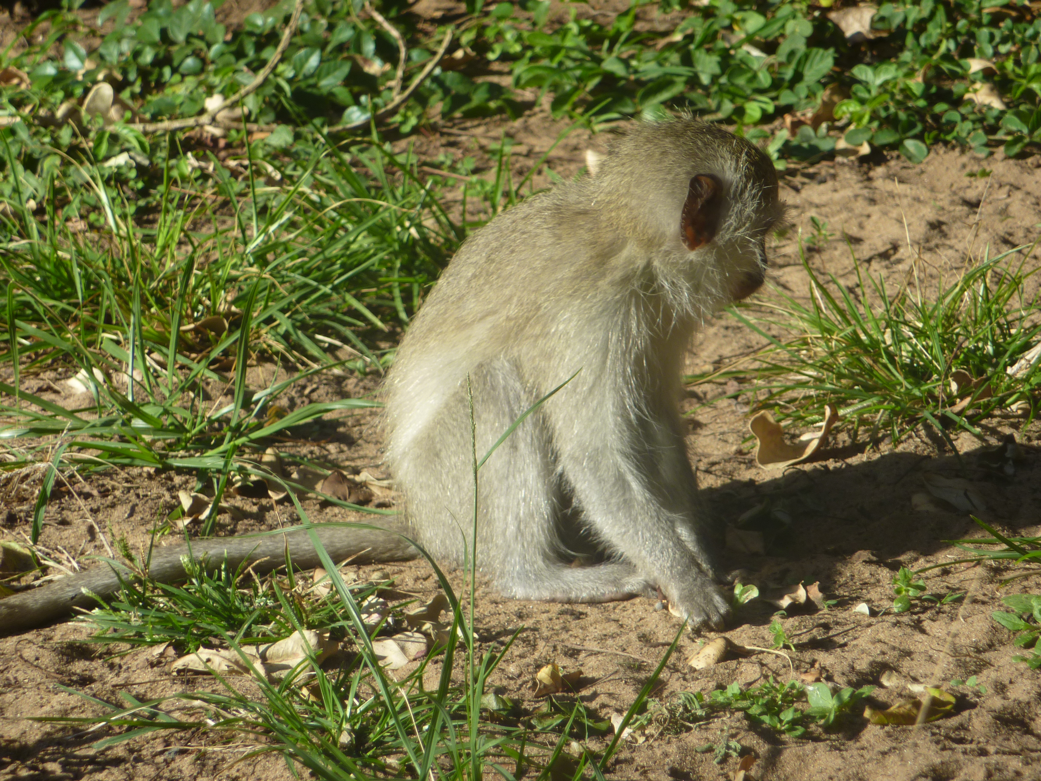 Vervet Monkey at Sodwana Bay National Park